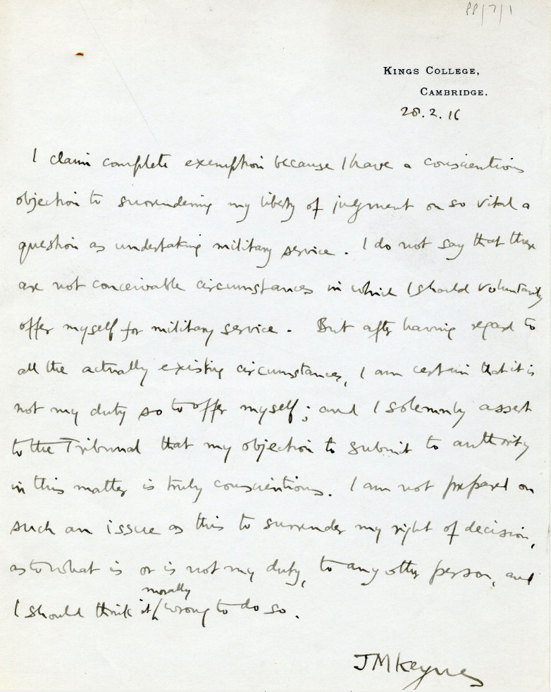 Statement from Keynes to the Holborn Local Tribunal.